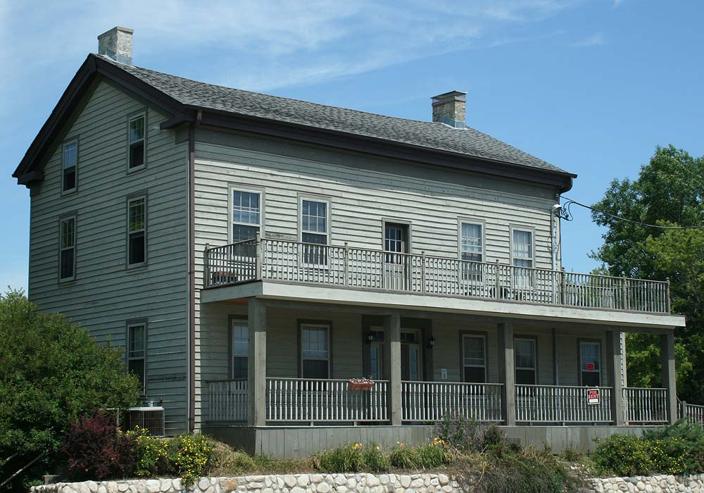 The Payne Hotel, an early stagecoach inn. Registered Historic Place, Saukville, Wisconsin.